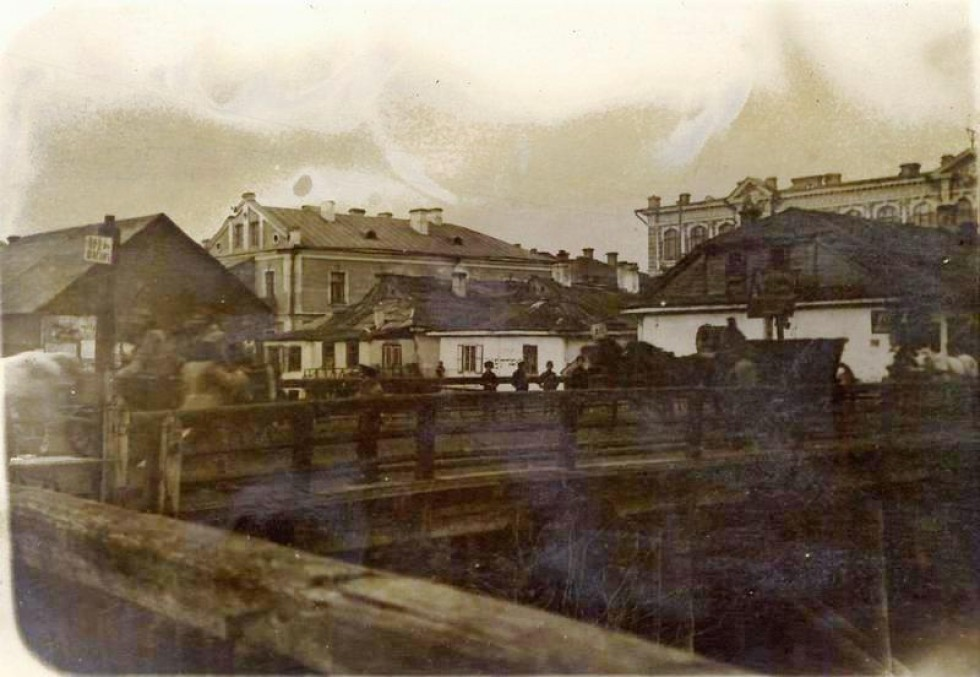 Bratskiy bridge in Lutsk.